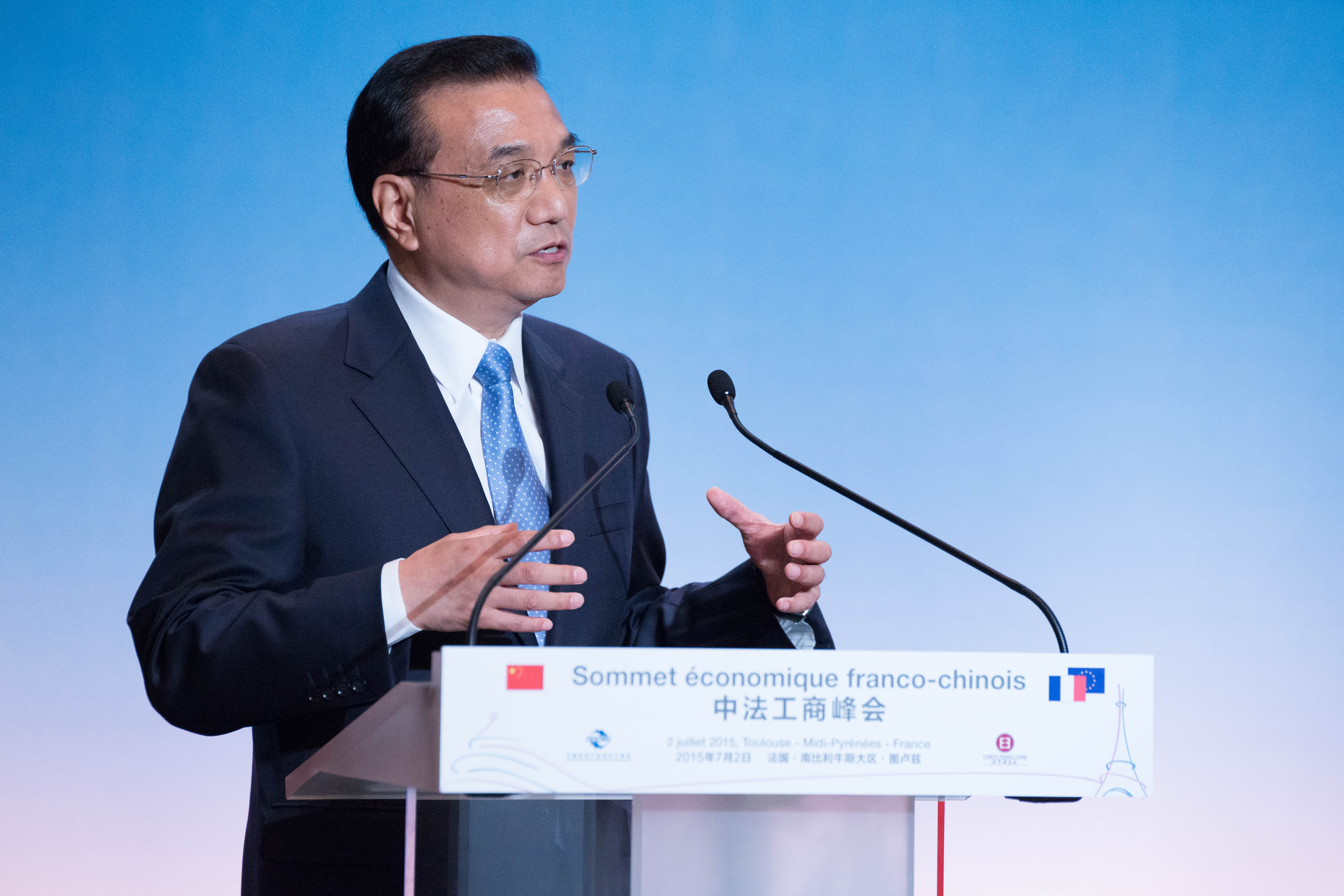 Li Keqiang at Sommet économique franco-chinois